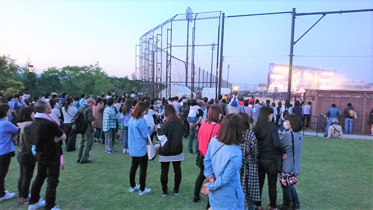 Momoiro Clover Z held a live concert in a countryside of Japan. Many people living near the place gathered.